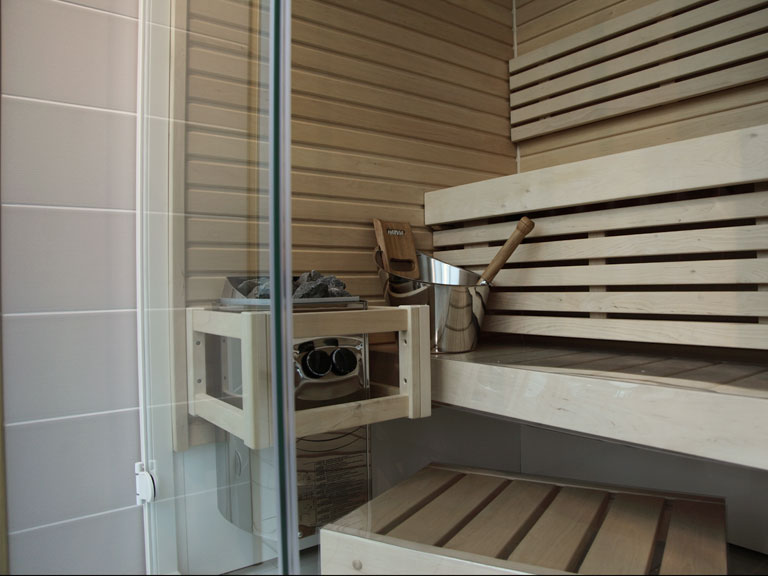 A bathroom sauna.